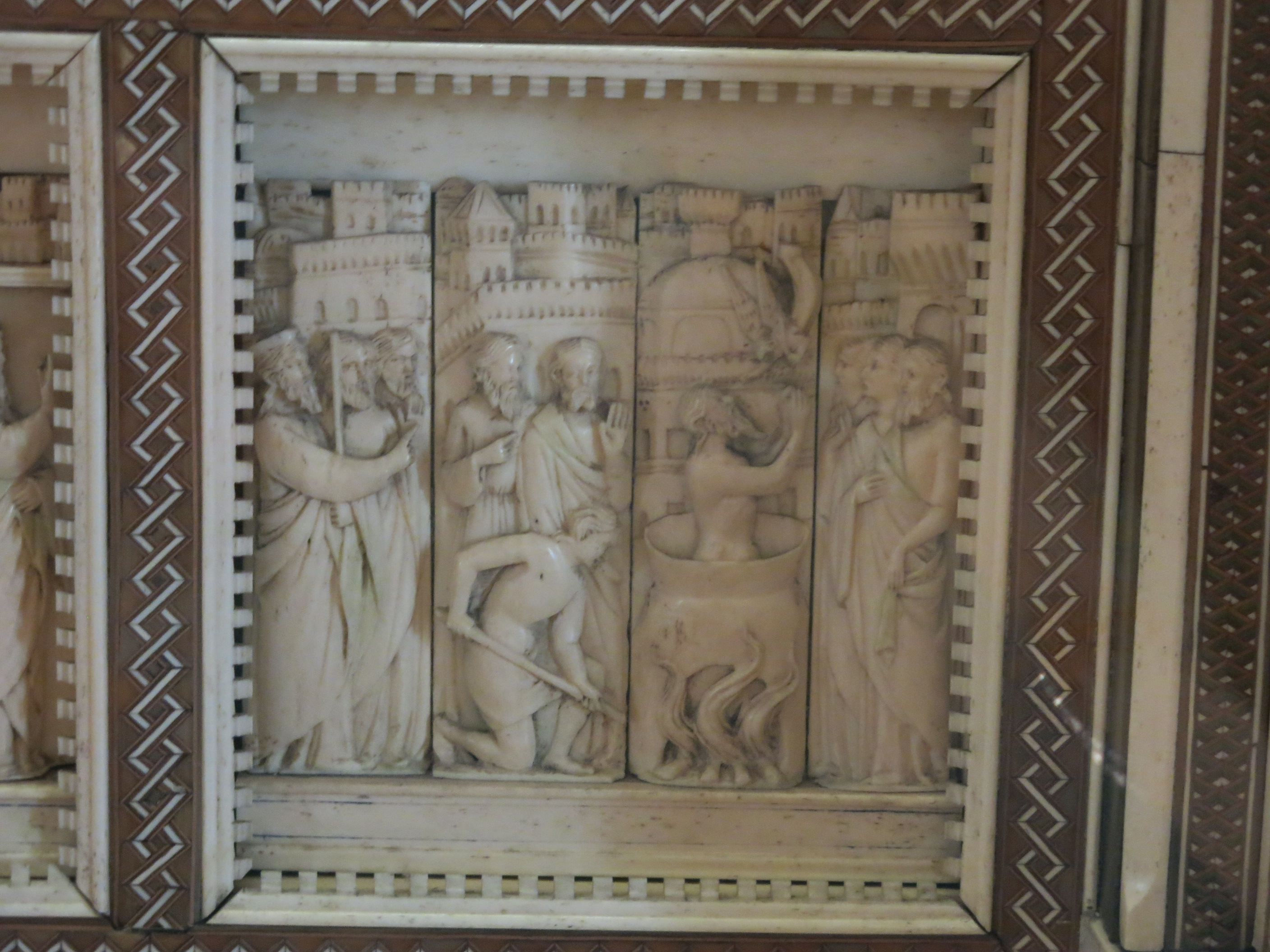 Poissy's reredo - Martyrdom of Saint John the Evangelist. Louvre museum (Paris, France).